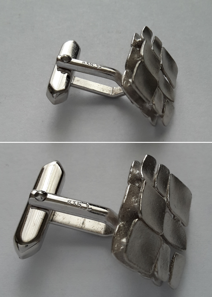 German silver cuff links with 835 hallmark stamp fineness